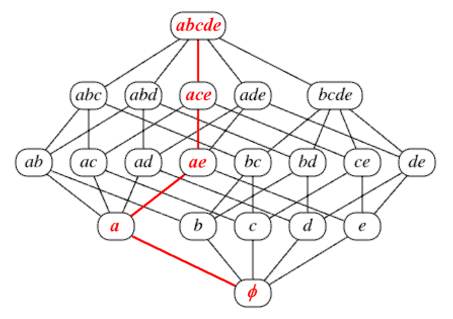 Face diagram of a square pyramid showing one of its flags